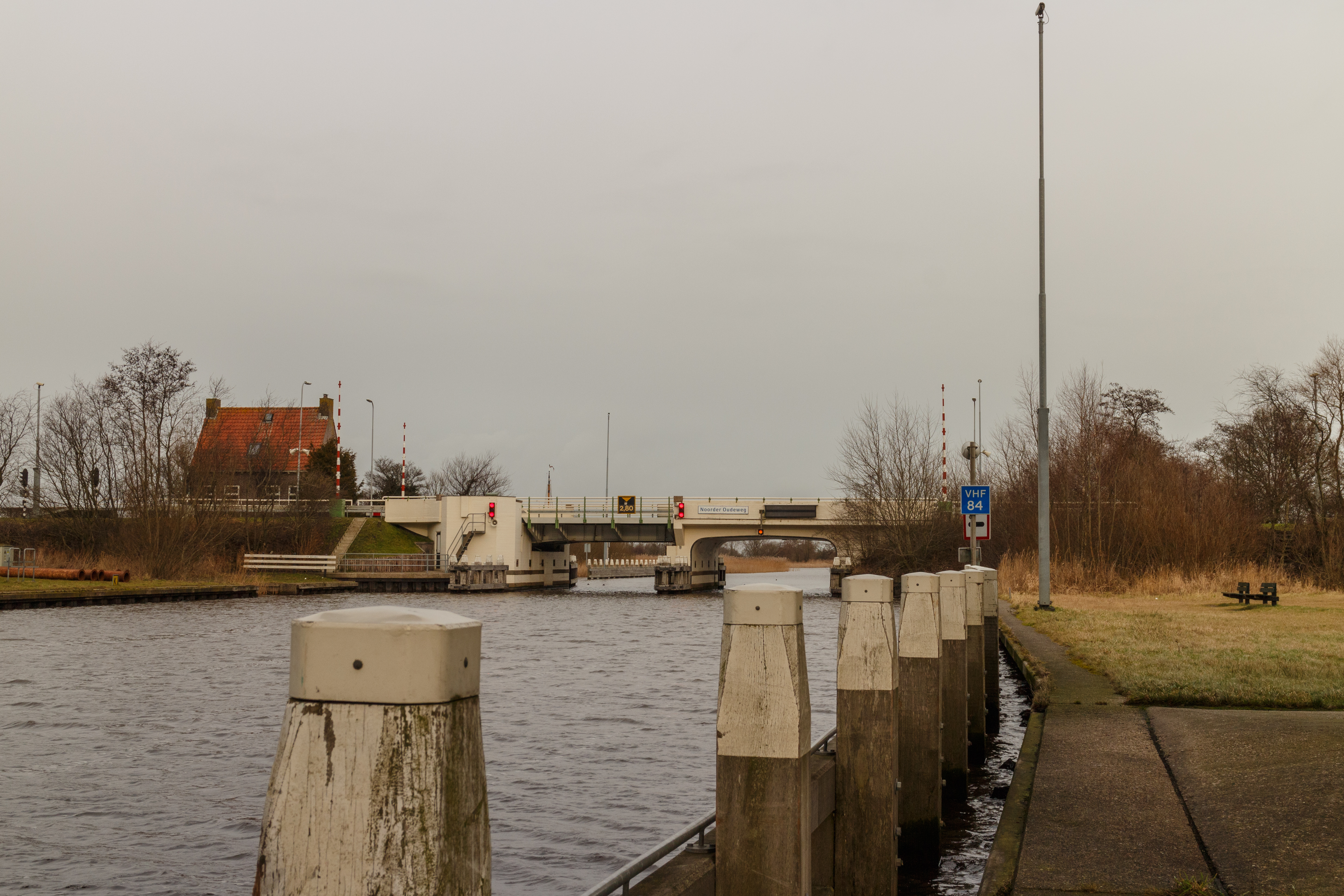 Tram Bridge over the Noorder Oudeweg bij Joure. Langweerderwielen (Langwarder Wielen) and surroundings.